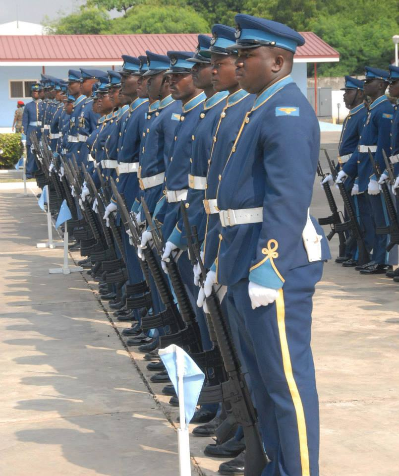 Members of the Kofi Annan International Peacekeeping Training Center honor guard stand in formation during a welcoming ceremony for Ivory Coast Gen. Soumaila Bakayoko, the Economic Community of West African States chairman of the chiefs of defense staff, as part of a distinguished visitors day during exercise Western Accord 2013 in Accra, Ghana, June 26, 2013. Western Accord is a U.S. Africa Command-sponsored, Marine Forces Africa-led multilateral field exercise and humanitarian mission in Senegal designed to increase interoperability between the United States and several West African partner nations.